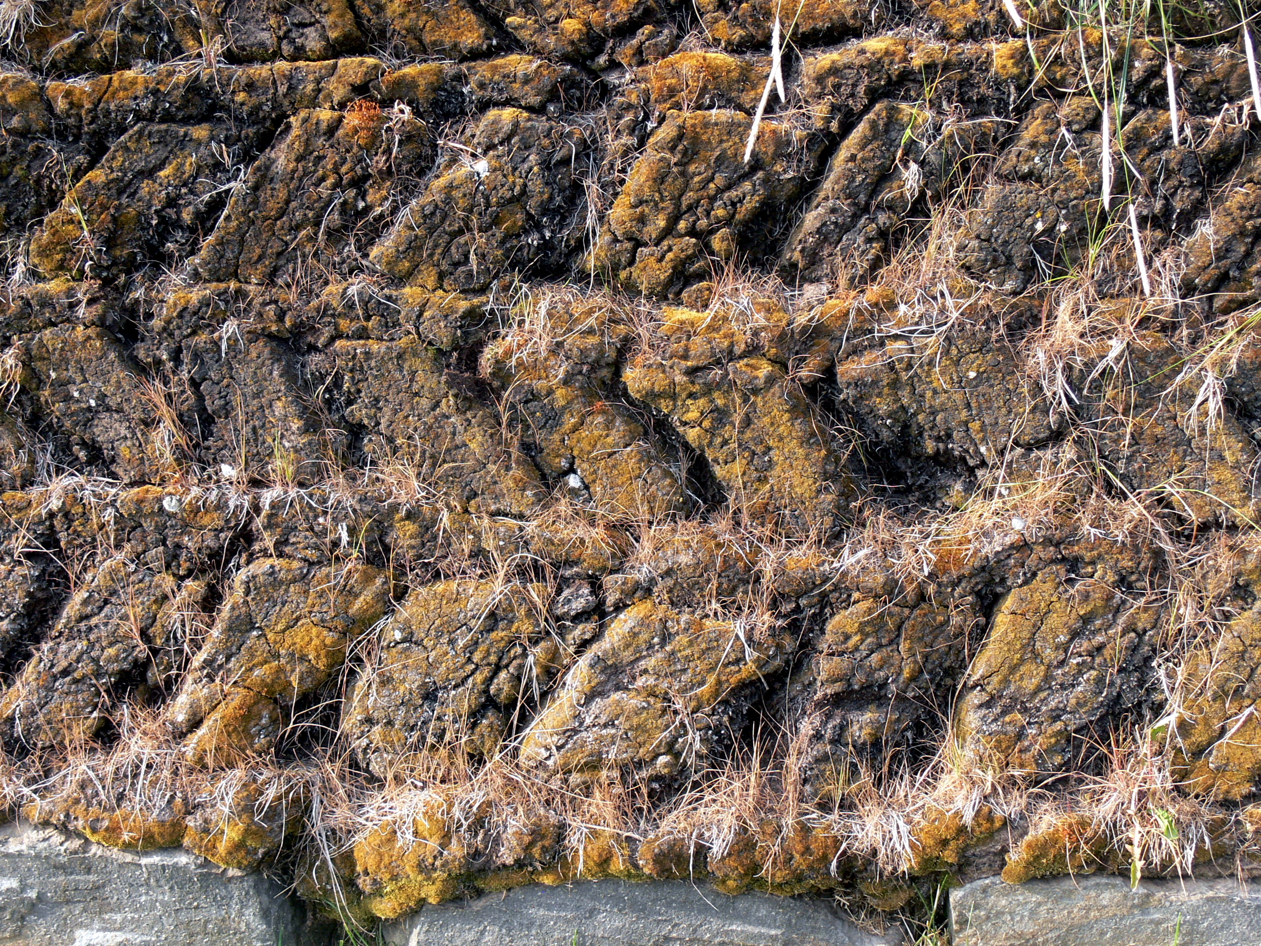 Laufas. Sod wall of a house.